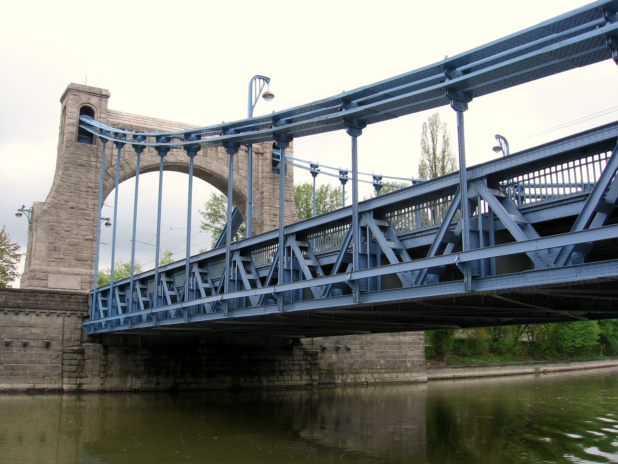 Polish Wikimedia Meeting, Wrocław, April/May 2006 April 29th the trip: look at Grunwaldzki Bridge from the river level